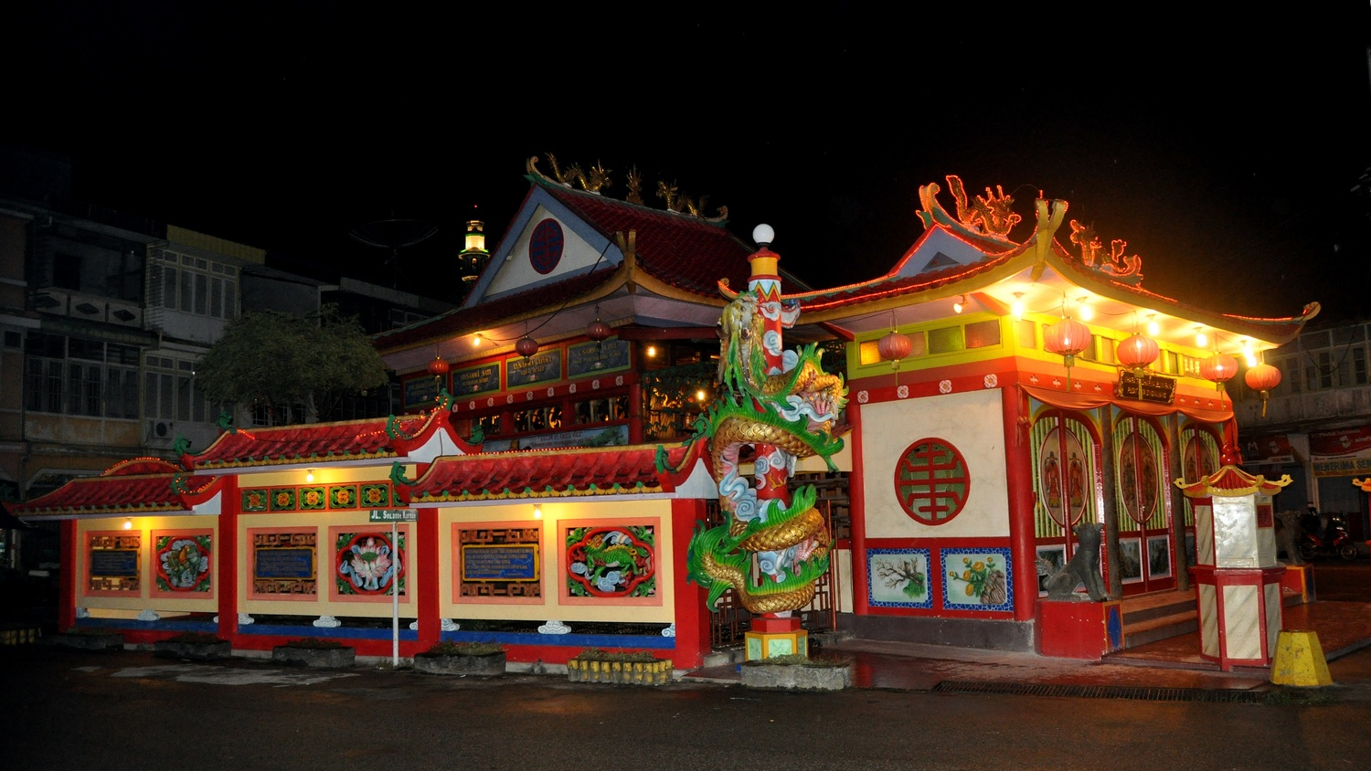 Tri Dharma Bumi Raya temple of Singkawang, night view.